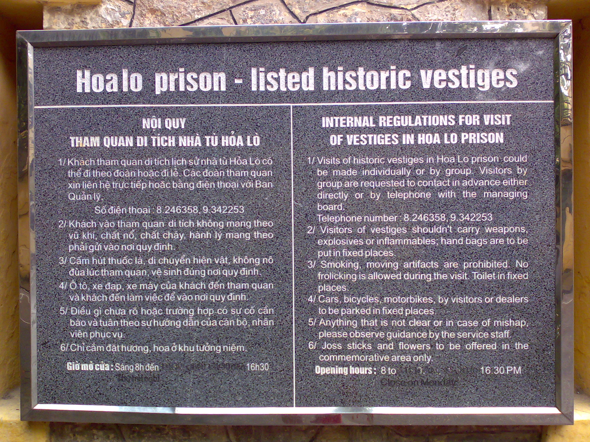 Regulations of visiting Hoa Lo prison-museum in Hanoi